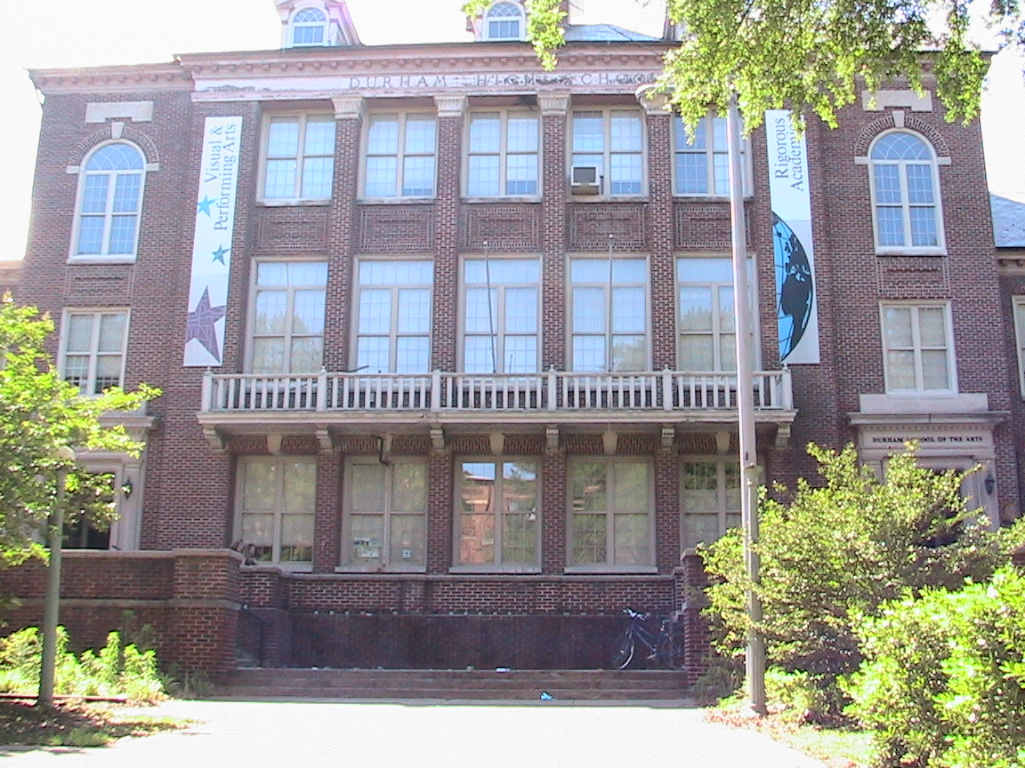 Photo taken with Digitial camera by myself, Mr.crabby